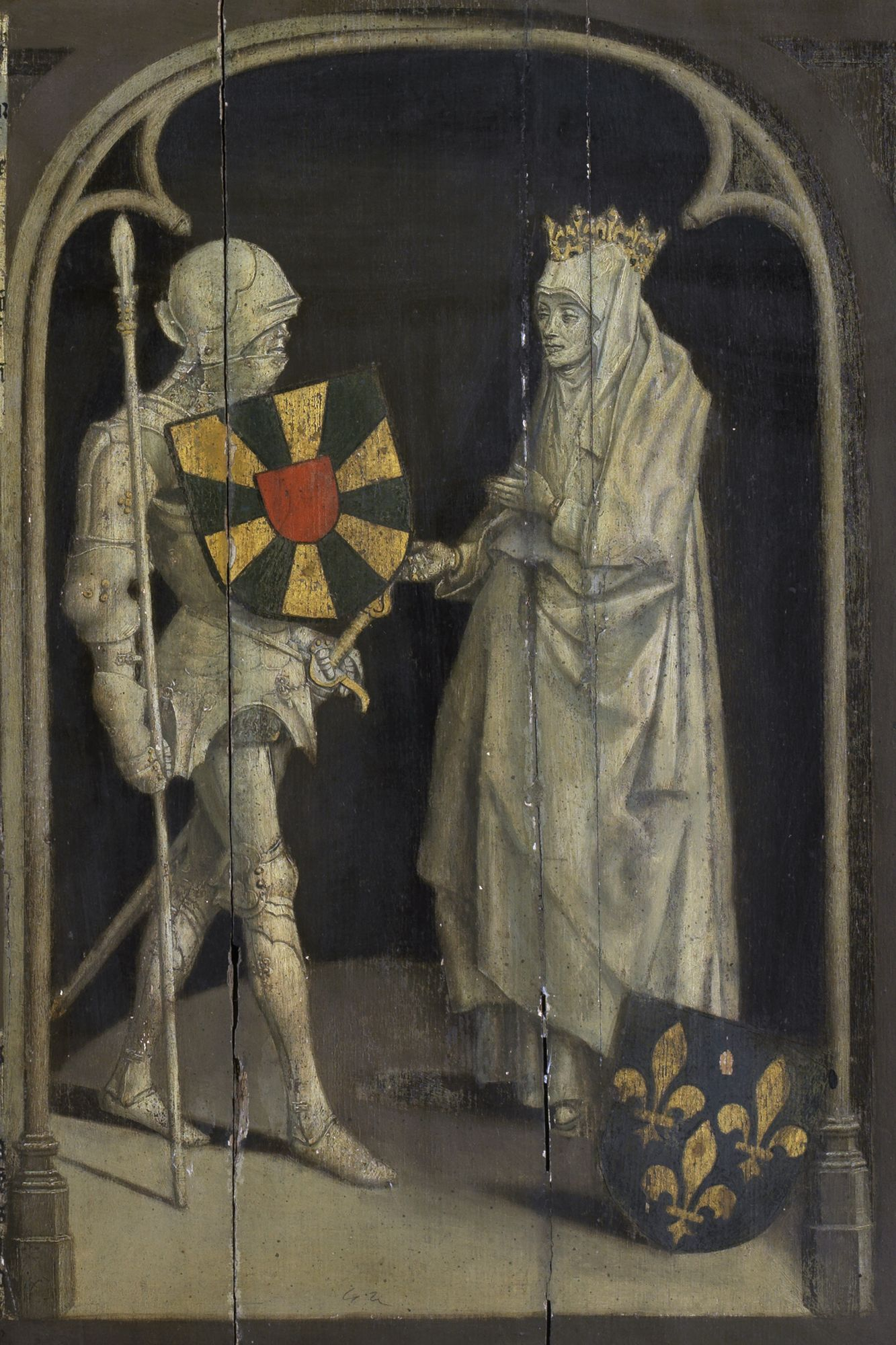 Baldwin I of Flanders and his wife Judith of France